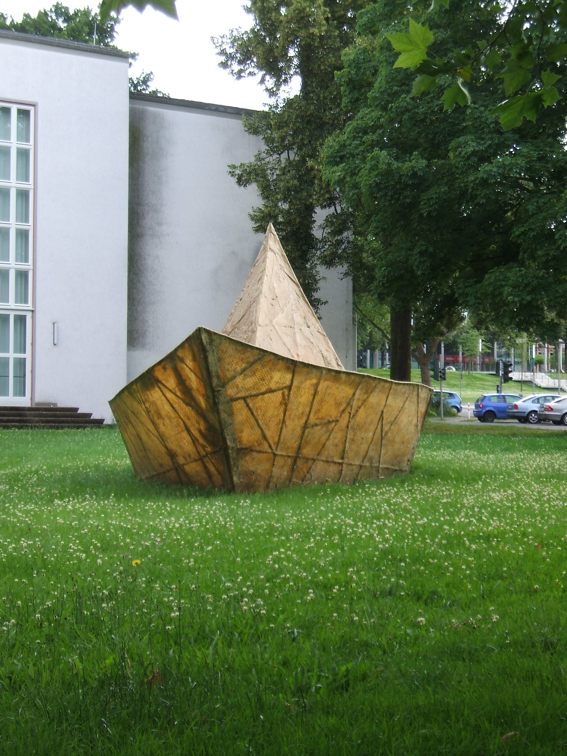 Anatol Herzfeld Traumschiff Tante Olga documenta 6 installed at Heinrich-Schütz-Schule in Kassel